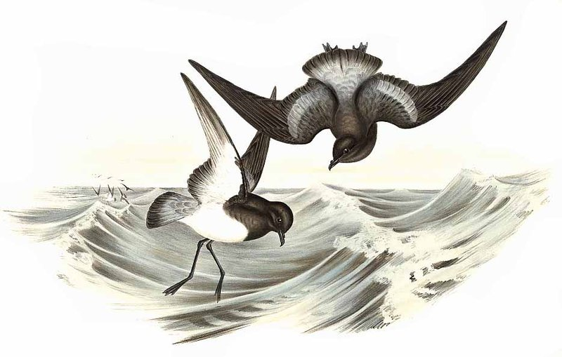 Grey-backed Storm Petrel (Garrodia nereis)